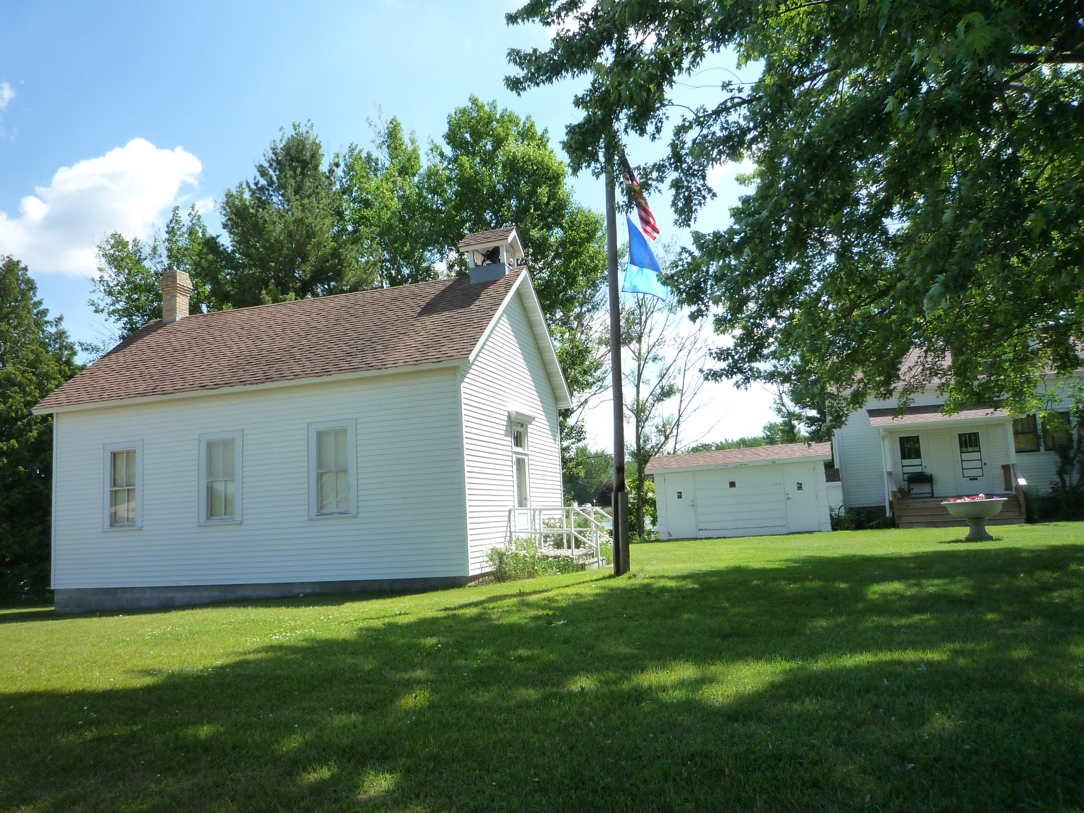 The Shawano County Historical Society operates a museum with several, restored historic buildings from the area, Shawano, Wisconsin, USA.